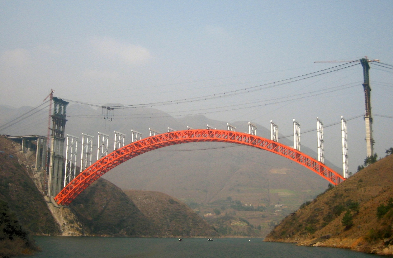 Daninghe River Bridge near Wushan